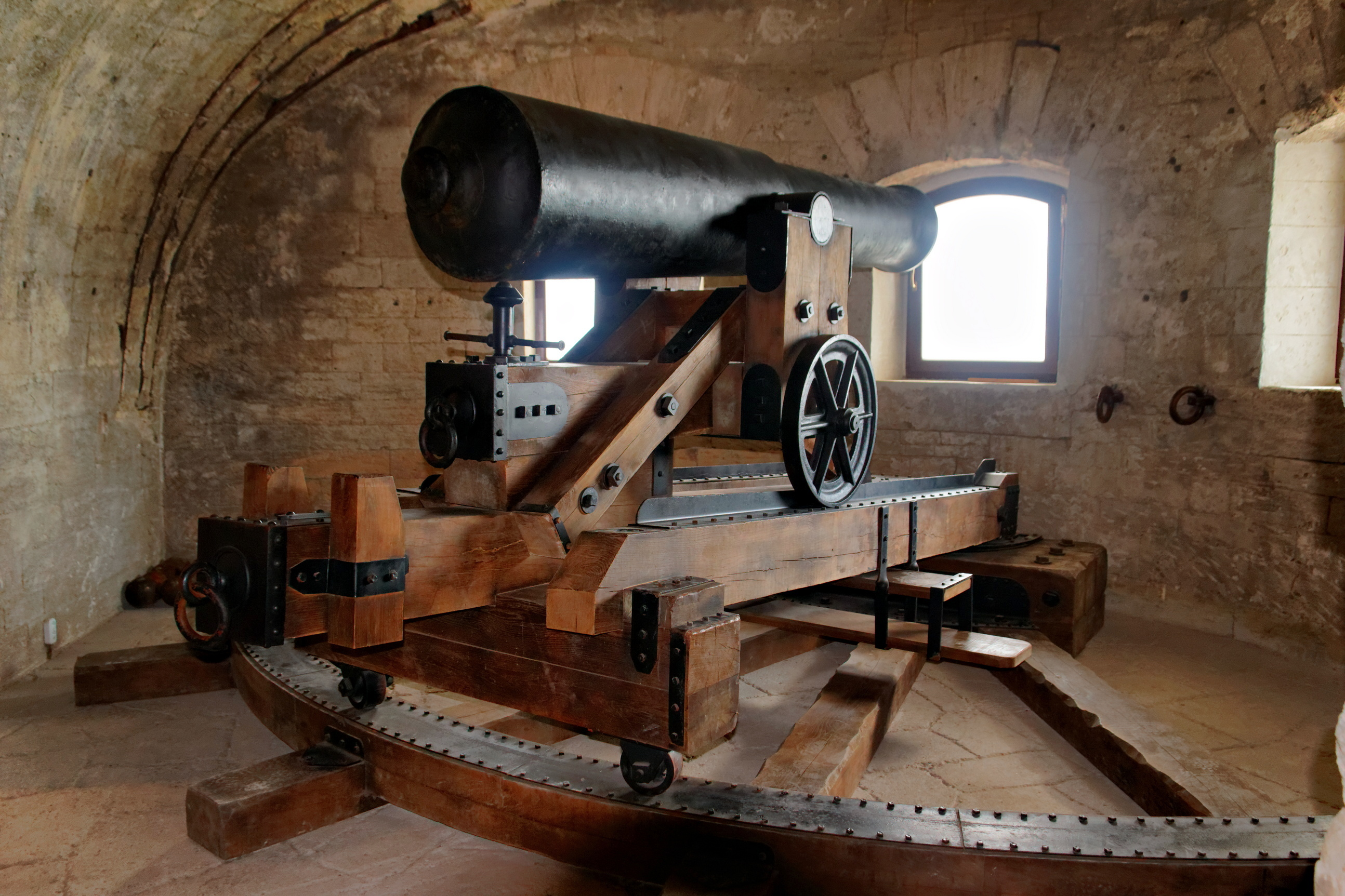 Sevastopol. Mikhaylovskaya battery. Cannon